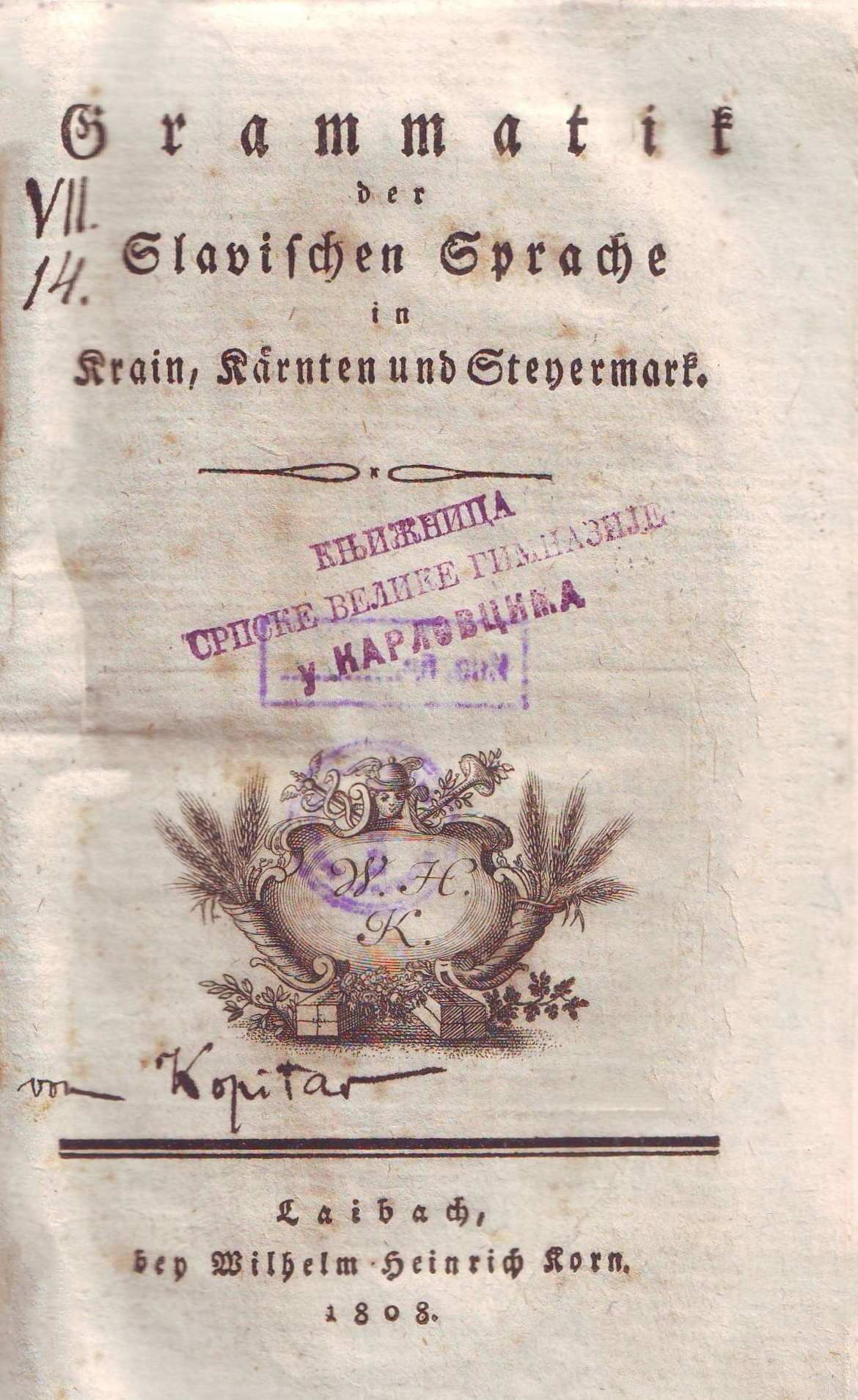 Cover of Grammatik der Slavischen Sprache in Krain, Kärnten und Steyermark (Grammar of the Slavic language in Carniola, Carinthia and Styria) (1808) by Jernej Kopitar. Srpski (latinica): Naslovna strana Grammatik der Slavischen Sprache in Krain, Kärnten und Steyermark (Gramatika slovenskog jezika u Kranjskoj, Koruškoj i Štajerskoj) (1808) Jerneja Kopitara.